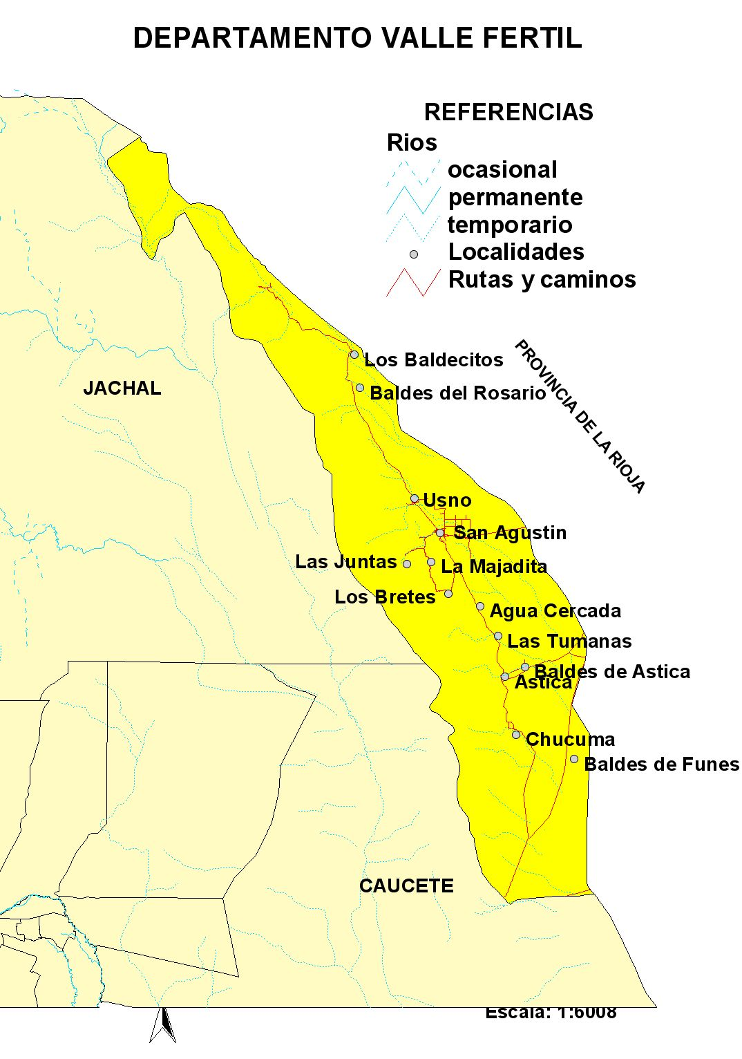 Maps of Valle Fértil Department, San Juan Province, Argentina